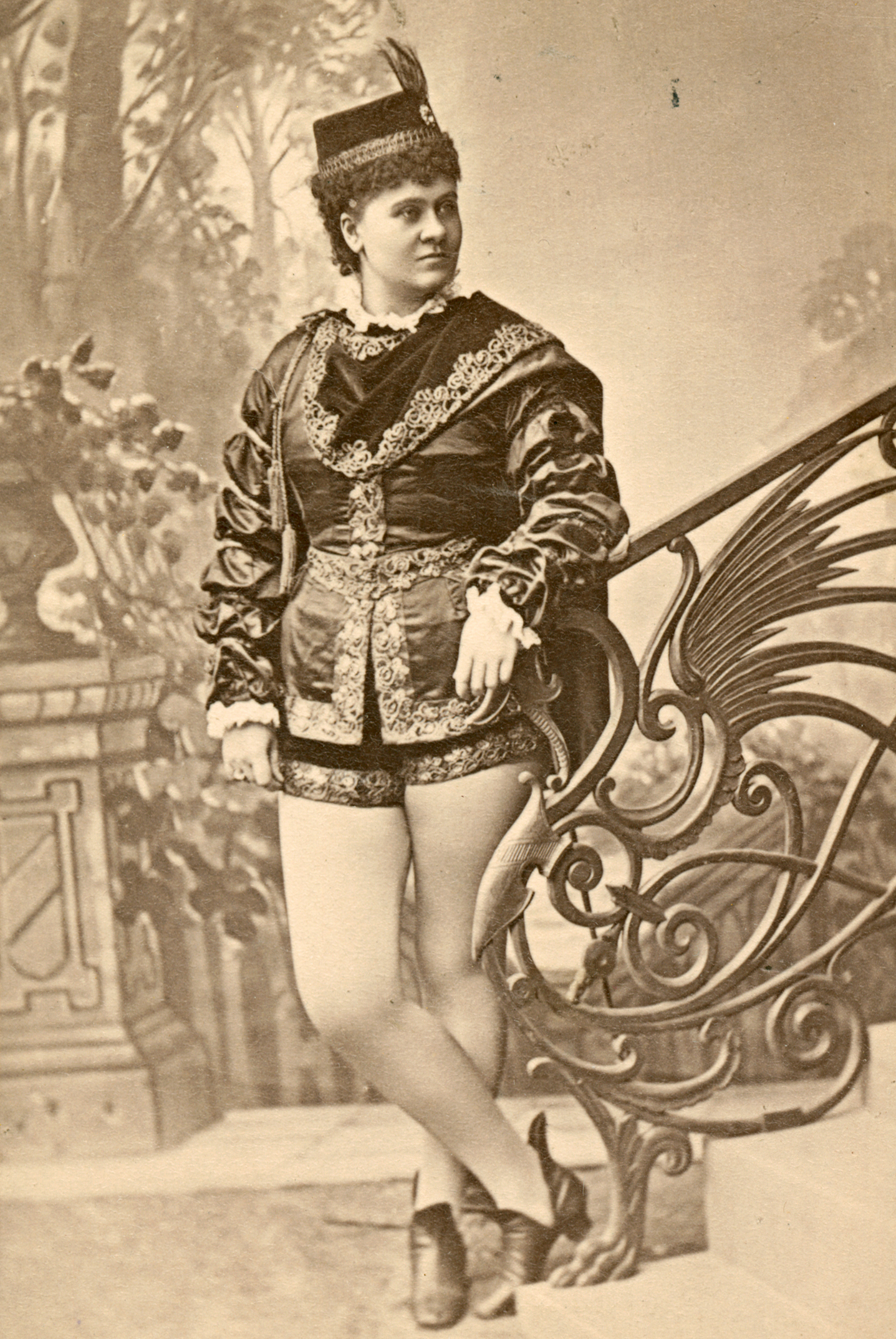 Östberg, Beata Carolina (1853-1924). Gift Horwitz. Titelrollen i Boccaccio. Nya Teatern 1879